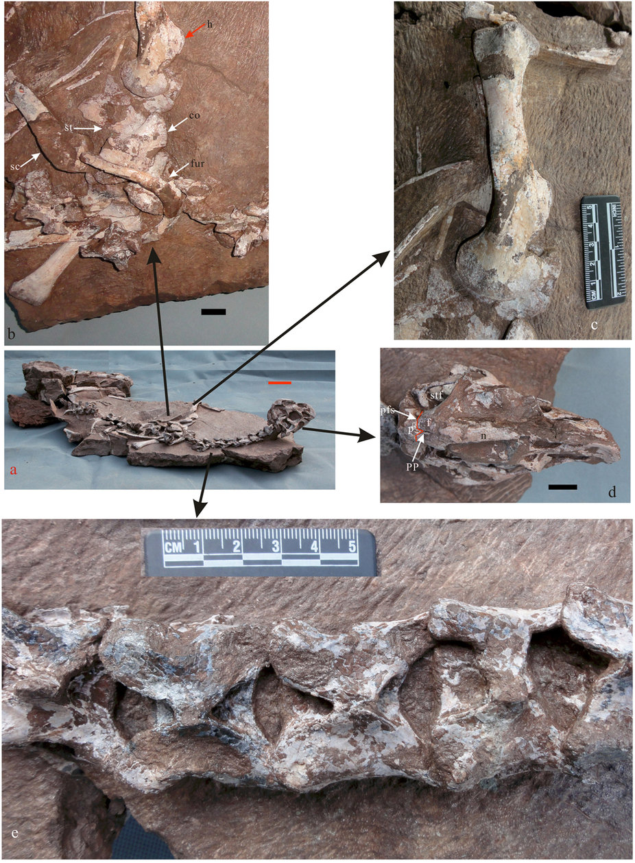 The holotype of Tongtianlong limosus gen. et sp. nov.: whole skeleton (a), close-up of furcula (b), close up of humerus (c), dorsal view of skull (d) and dorsal view of middle cervical vertebrae. Scale bars = 10 cm in (a) and 2 cm in (b,d); Abbreviation: co, coracoids; f, frontal; fur, furcula; h, humerus; p, parietal; pfs, frontal/parietal suture; pp, parietal process; sc, scapula; st, sternum; stf, supratemporal fenestra.